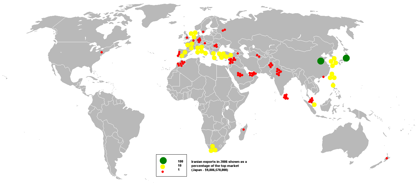 This bubble map shows the global distribution of Iranian exports in 2006 as a percentage of the top market (Japan - $9,886,570,000). This map is consistent with incomplete set of data too as long as the top producer is known. It resolves the accessibility issues faced by colour-coded maps that may not be properly rendered in old computer screens. Data was extracted on 17th September 2007 from Based on :Image:BlankMap-World.png